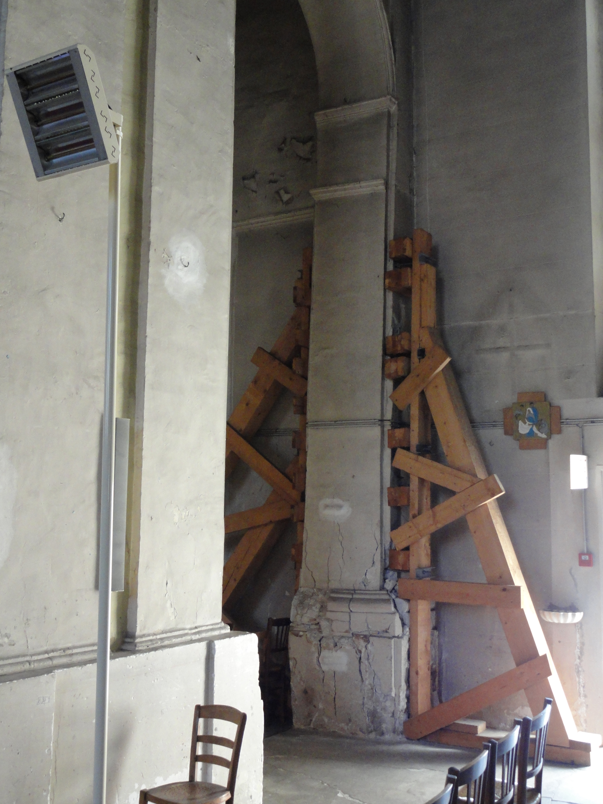 Church Saint-Germain l'Auxerrois of Pantin- Historic monument - One of the pilars in danger